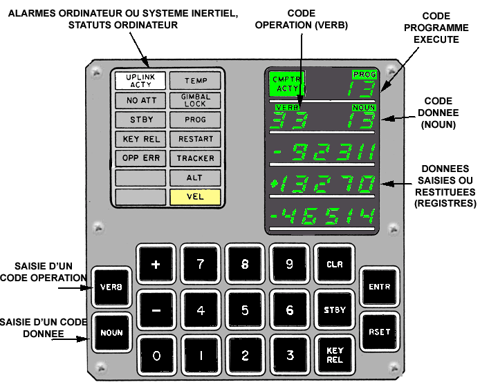 Apollo programm : Display and Keyboard (DSKY) of the Primary Guidance System (french comments